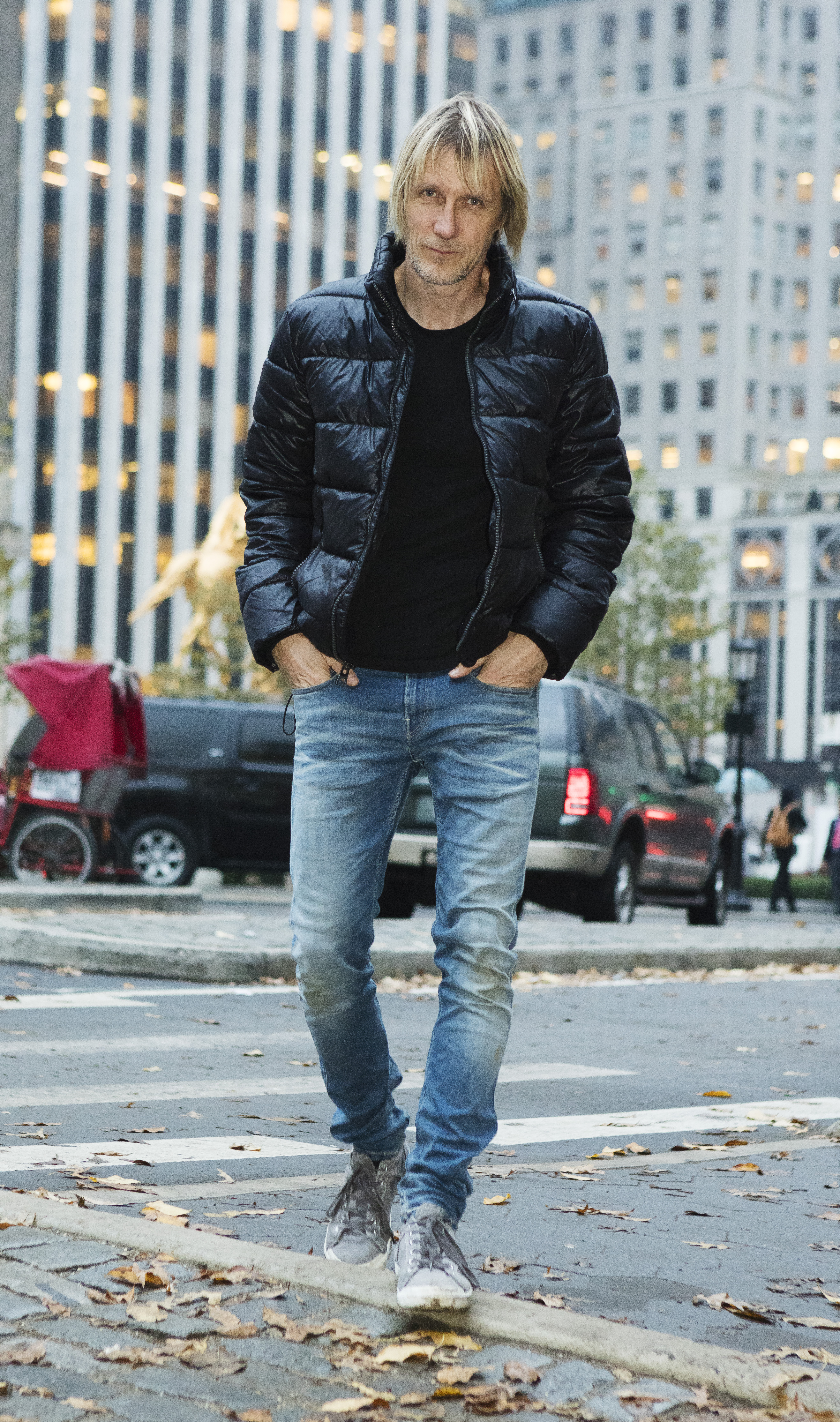 Damir Hoyka photographed in New York